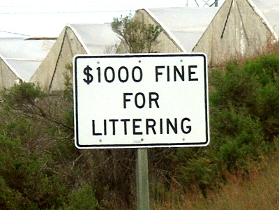 The "$1000 Fine For Littering" sign is a common sight along rural highways and freeways in the U.S. state of California. However, it may be somewhat misleading, as $1000 is actually the maximum fine and is applicable only to repeat offenders. The minimum fine for a first-time offense is $100. Photographed on April 2, en:2006 by user Coolcaesar.